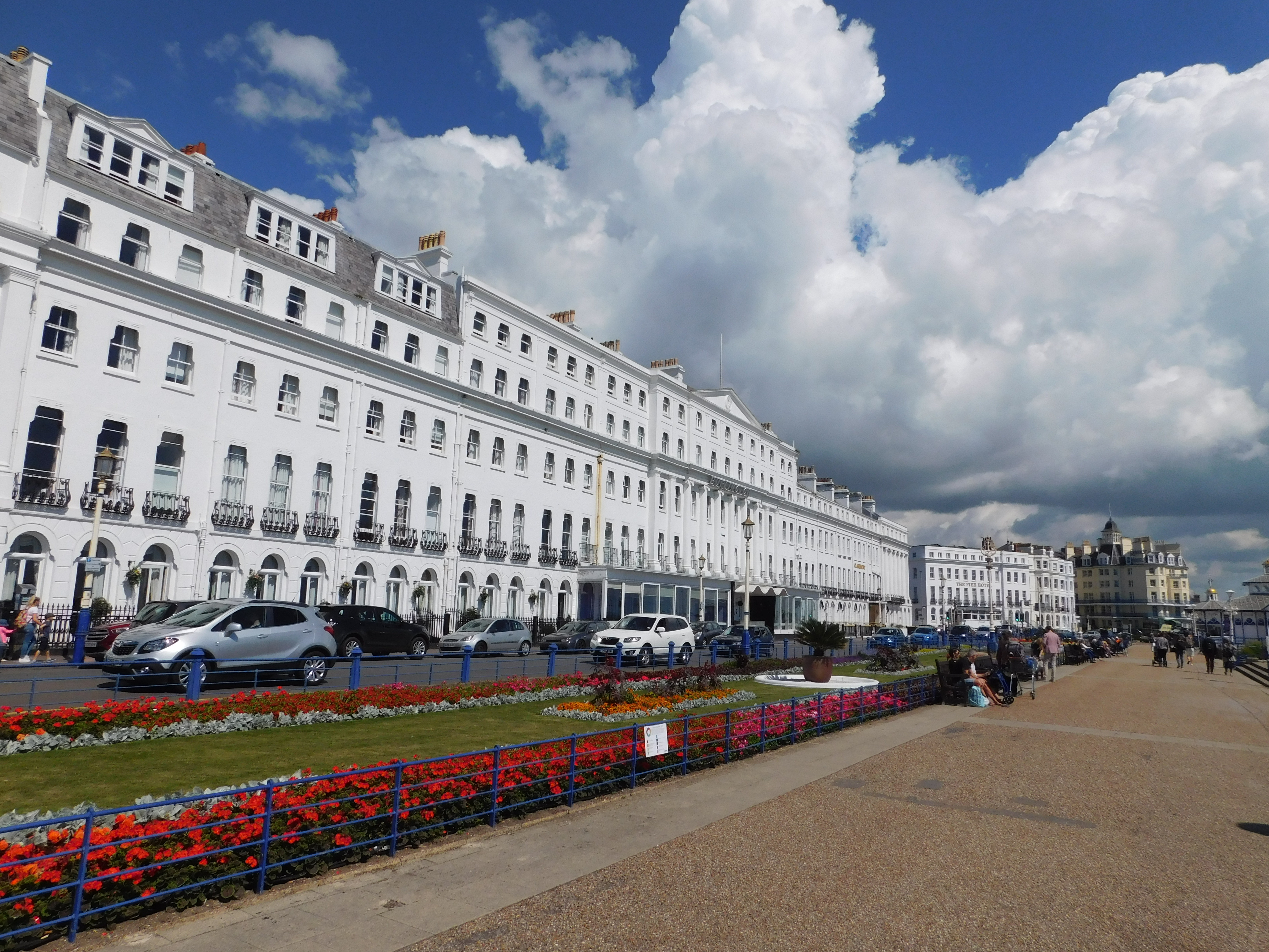 Burlington Hotel Claremont Hotel Wikidata has entry Q17555431 with data related to this item.